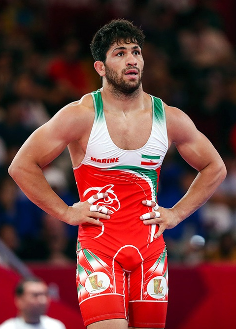 Wrestling at the 2018 Asian Games – Men's Greco-Roman 87 kg